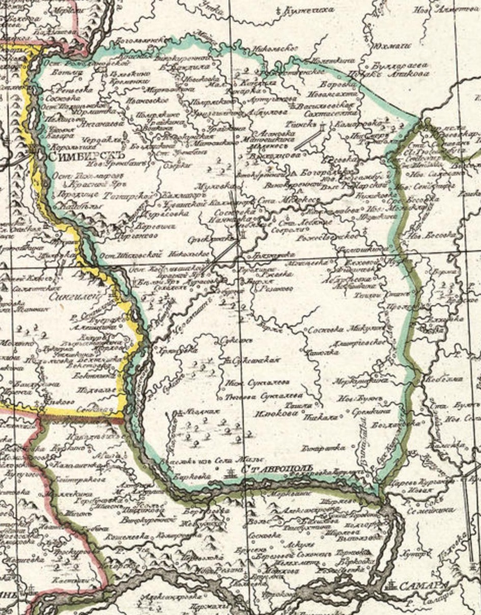 Stavropolsky uyezd. Crop from Atlas of Russian Empire. 1800 year. List 32. Simbirskaya Province from 10 uyezds